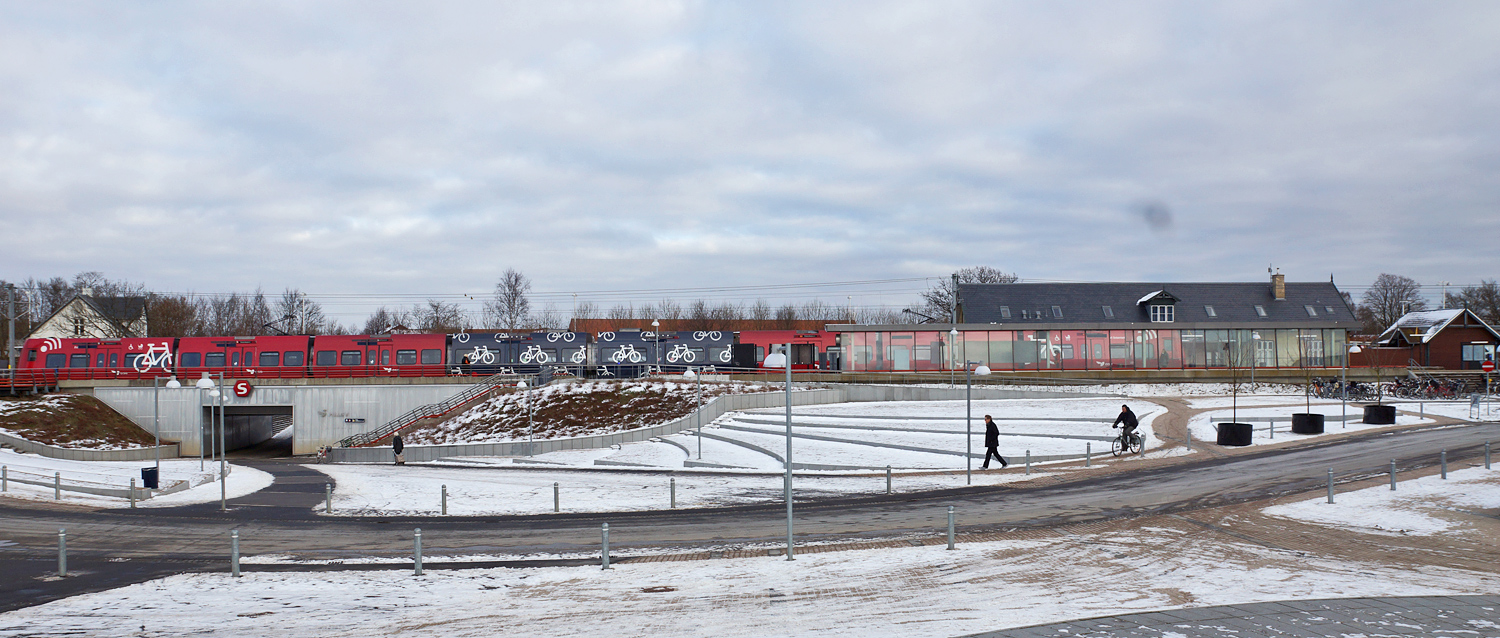 Måløv Station in Måløv, view from South